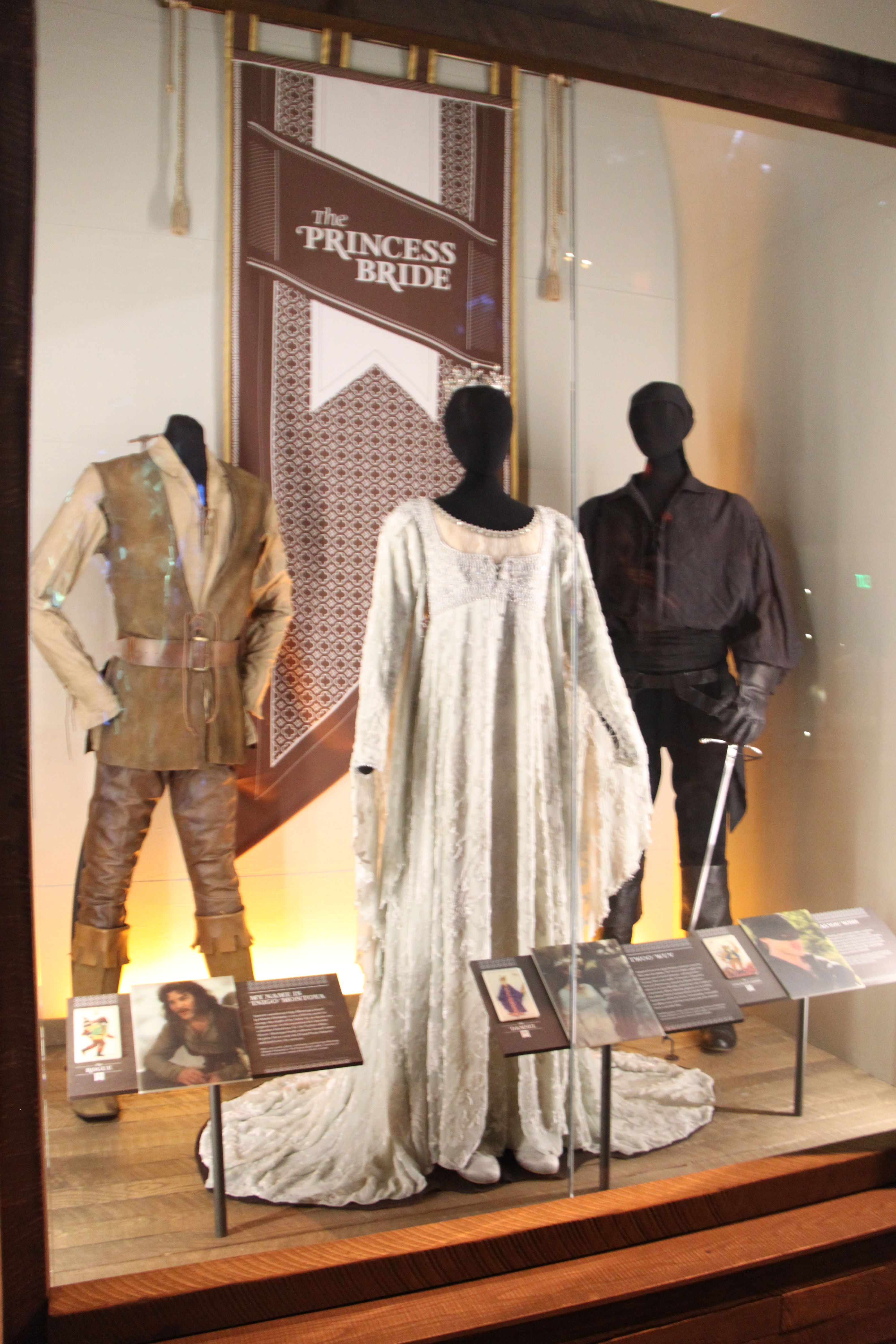 Costumes from the film The Princess Bride displayed at Fantasy: Worlds of Myth and Magic, Experience Music Project/Science Fiction Hall of Fame, Seattle. From left to right: Inigo Montoya costume, Buttercup wedding gown and Dread Pirate Roberts costume.